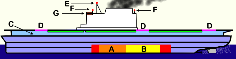 Sketch vertical view of Yorktown class carriers in 1940s.